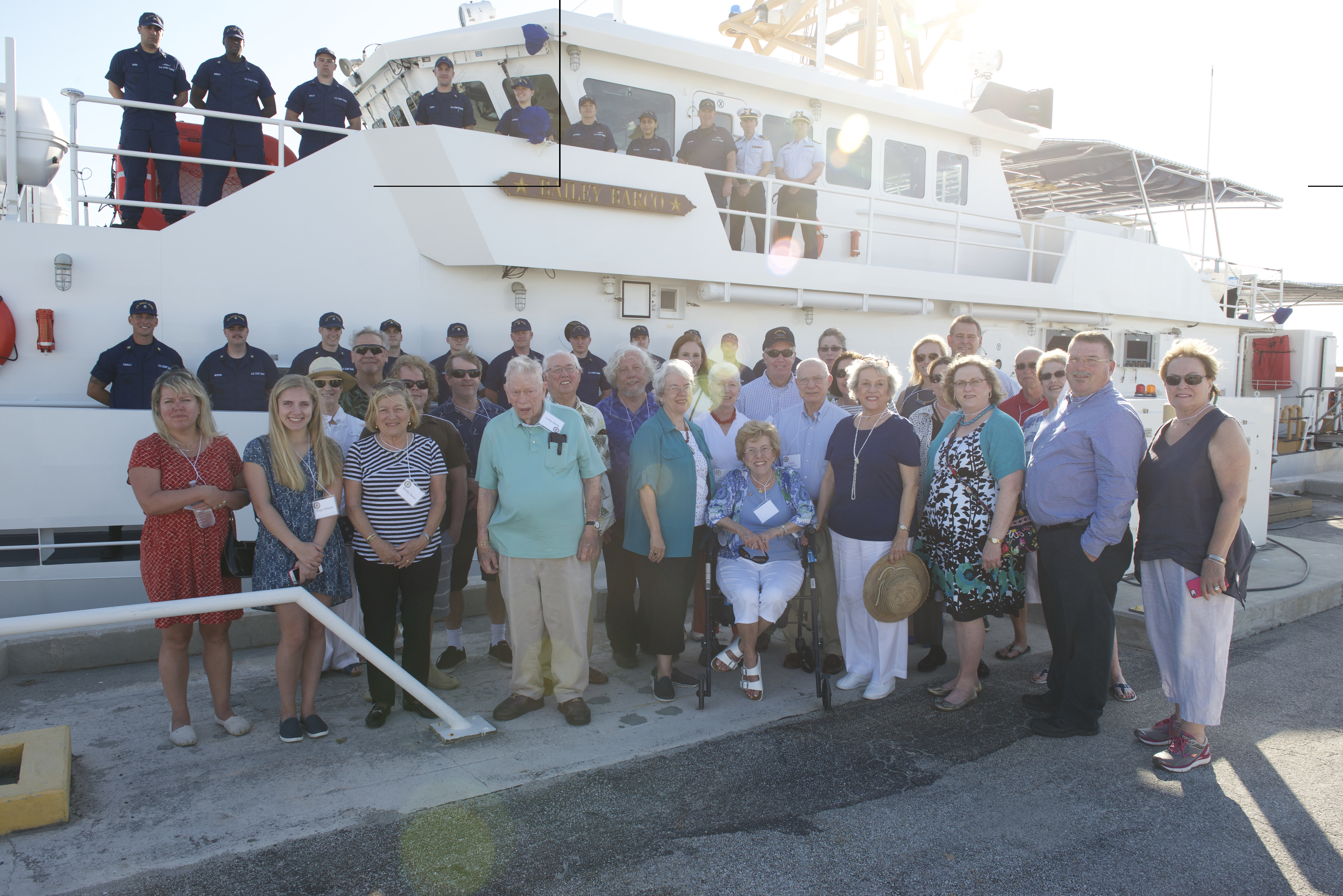 Descendants of Bailey Barco meet the crew of the USCGC Bailey Barco. Original caption: “The decsendants of Bailey Barco, keeper of Dam Neck Lifesaving Station, pose for a photo with the crew of the Coast Guard Cutter Bailey Barco Tuesday, Feb. 7, 2017 at the signing over ceremony to the Coast Guard in Key West, Florida. The cutter Bailey Barco, the 22nd 154-foot Fast Response Cutter in the Coast Guard fleet, will be homeported in Ketchikan, Alaska. U.S. Coast Guard photo by Petty Officer 2nd Class Jonathan Lally.”